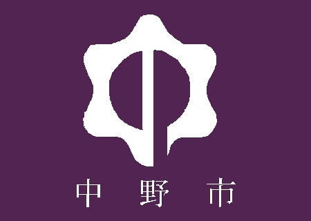 Flag of Nakano Nagano